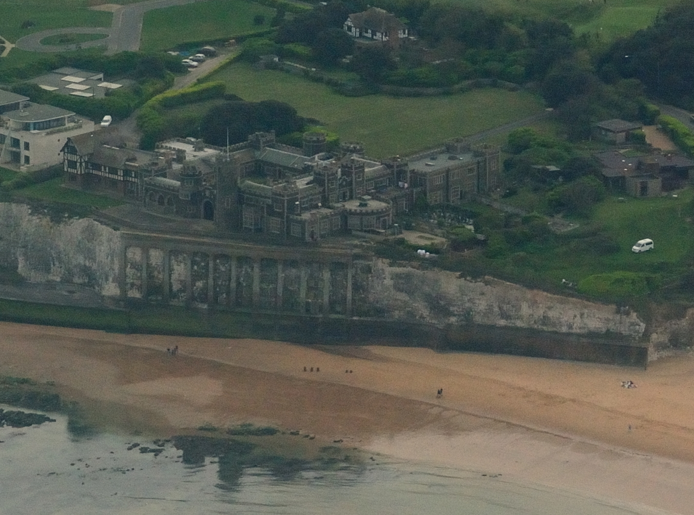 Aerial view of Kingsgate Castle on the East coast of Kent (England) near Ramsgate. Nikon D60 f=62mm f/10 at 1/1600s ISO 800. Processed using Nikon ViewNX 1.5.2 and GIMP 2.6.6.